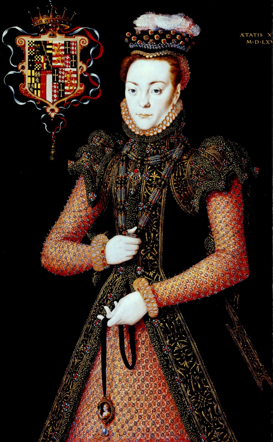 Portrait of an unknown lady, perhaps Lady Margaret Clifford (1540–1596).